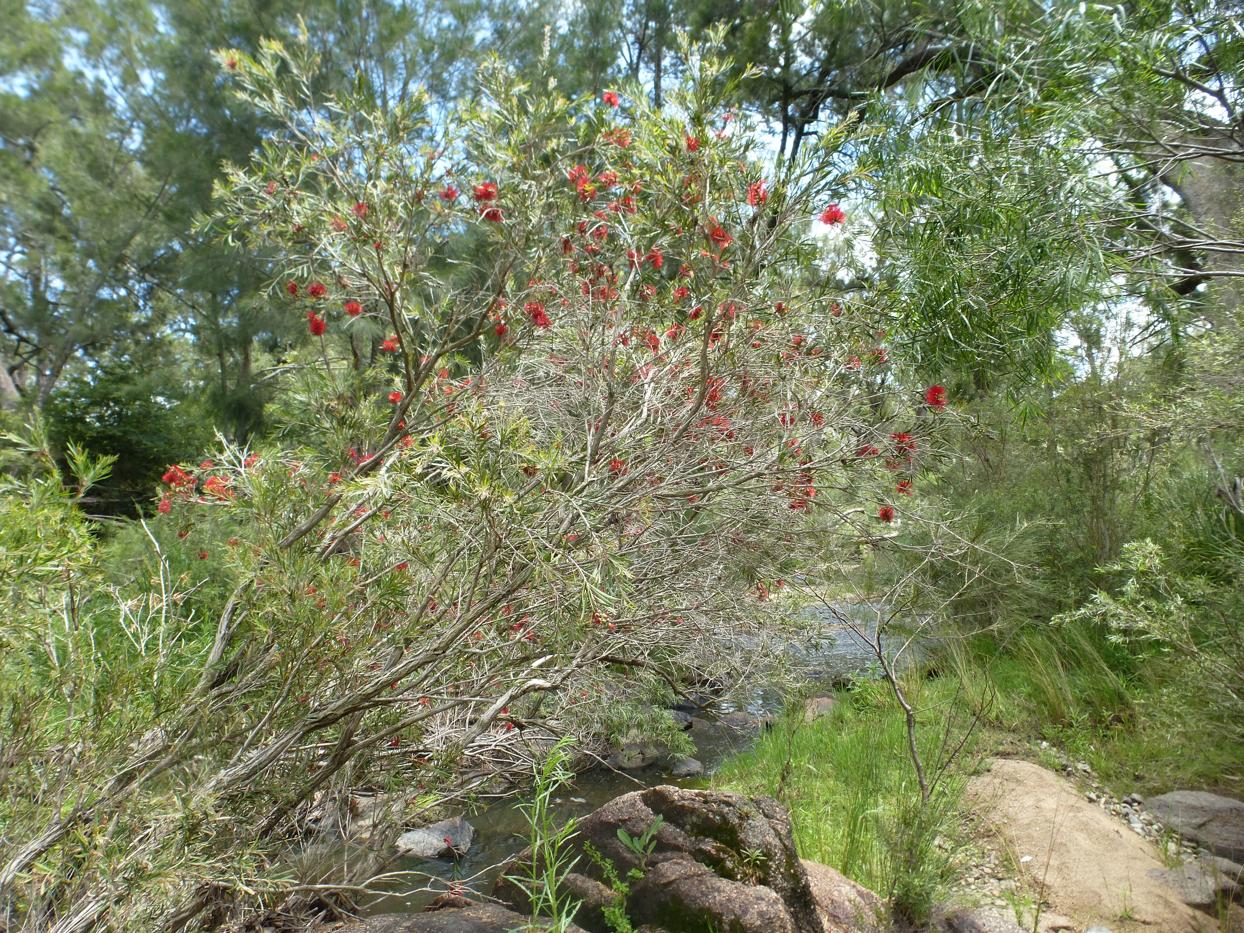 Melaleuca sabrina growing on the banks of the Severn River (Queensland) near Ballendean